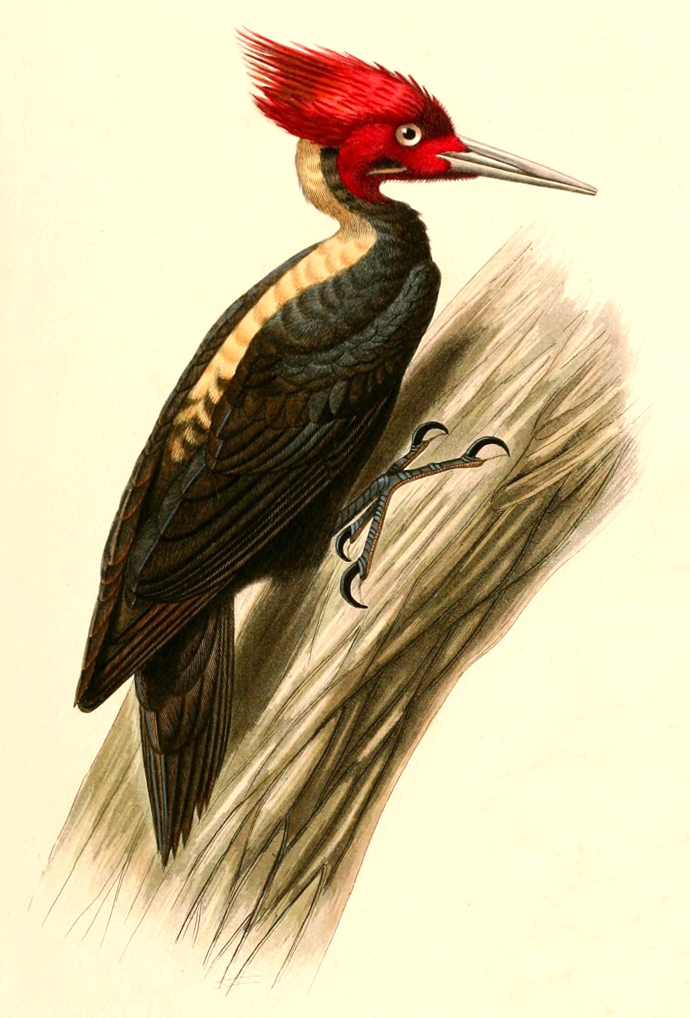 « Picus atriventris » = Campephilus leucopogon (Cream-backed Woodpecker)